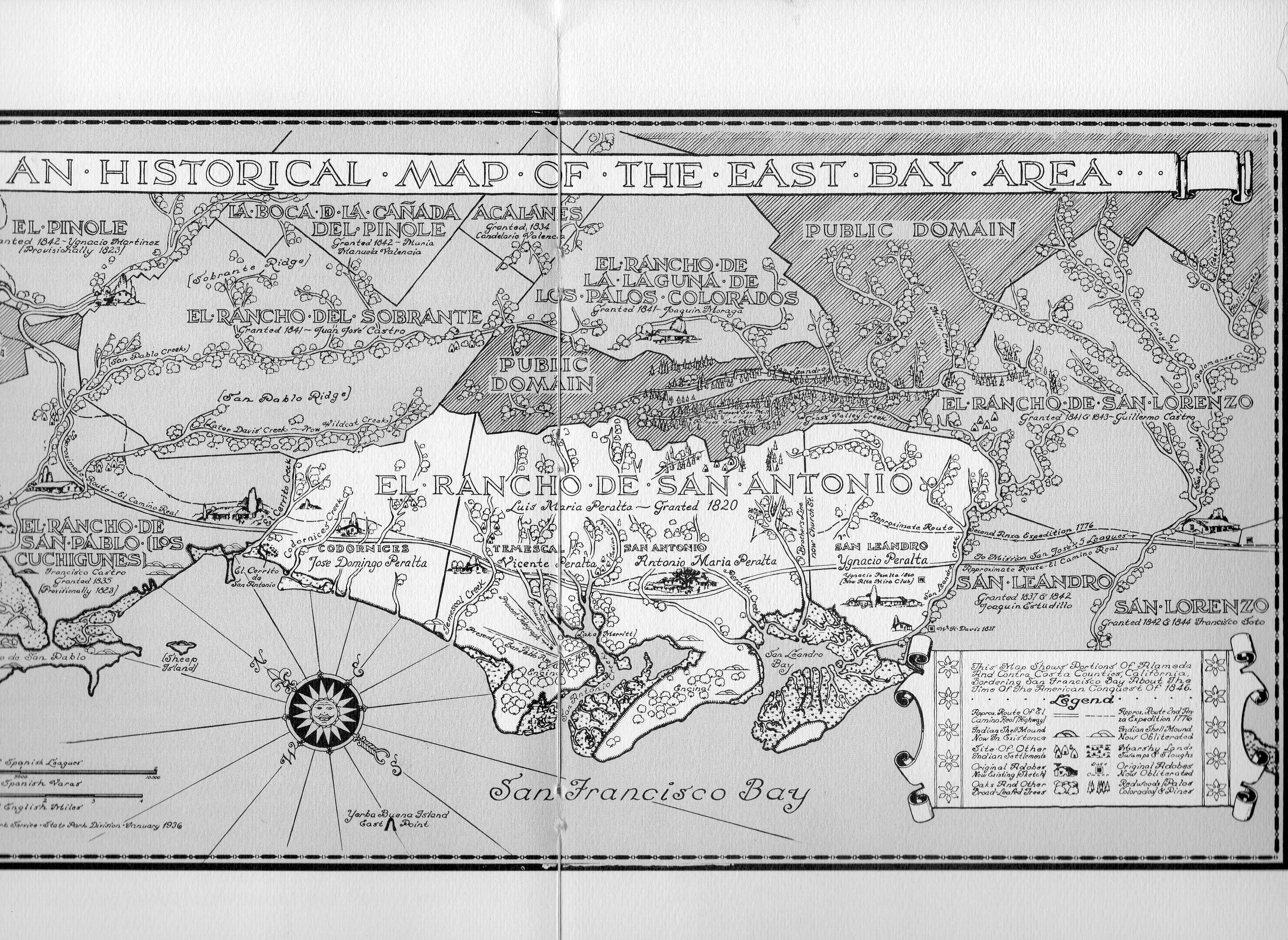 Historic Map of Rancho San Antonio